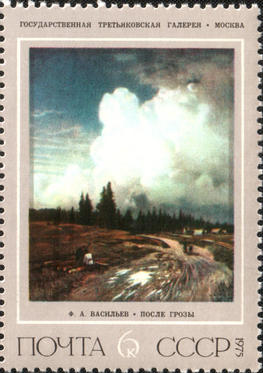 A USSR stamp